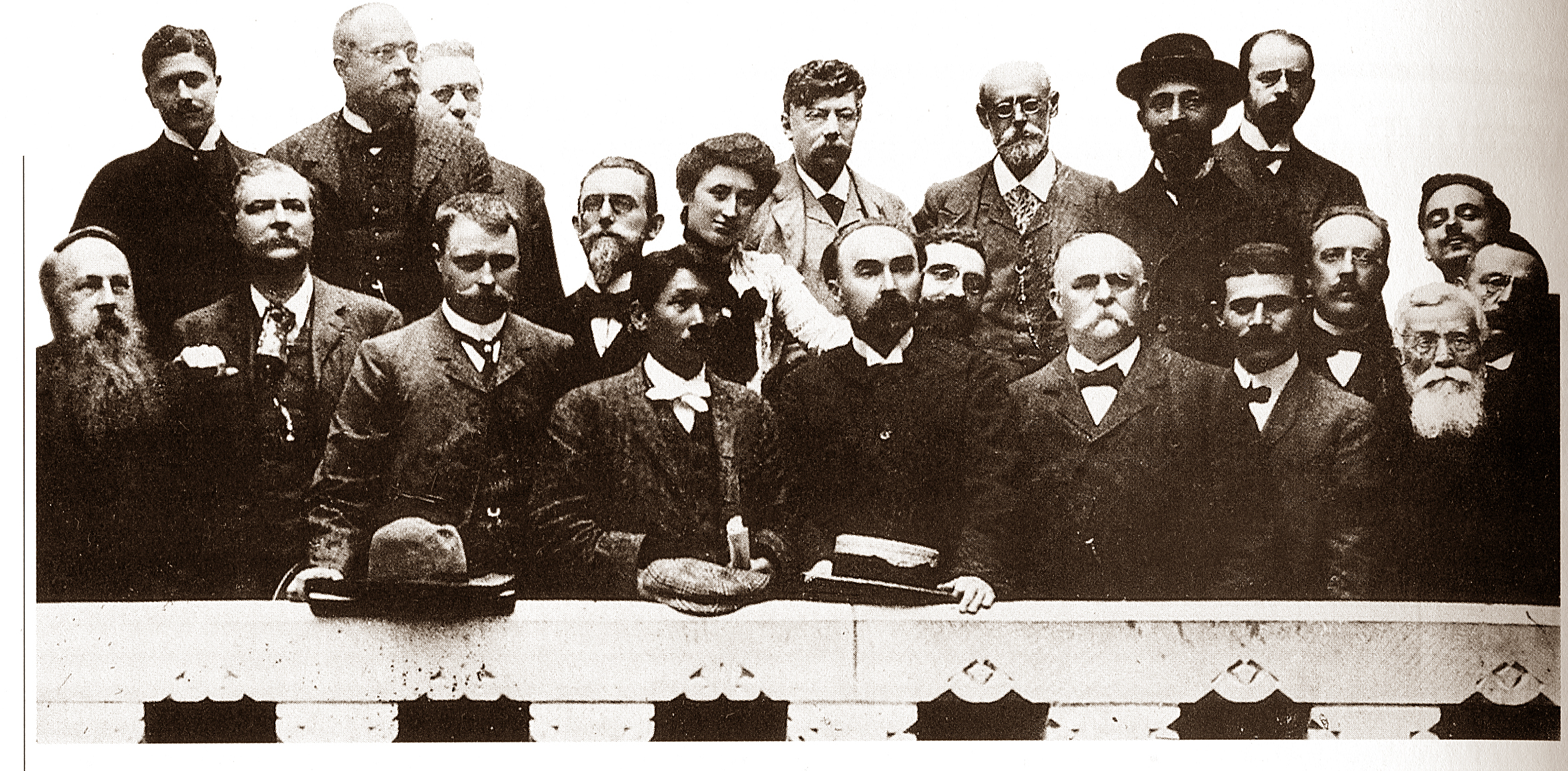 Leaders of the II. International, Amsterdam 1904 [1]